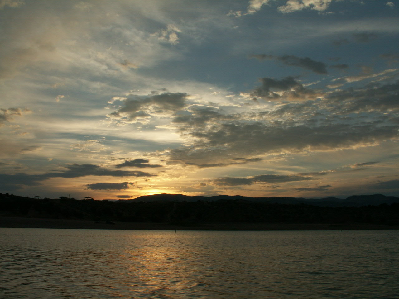 Fishing trip on Yuba Reservoir